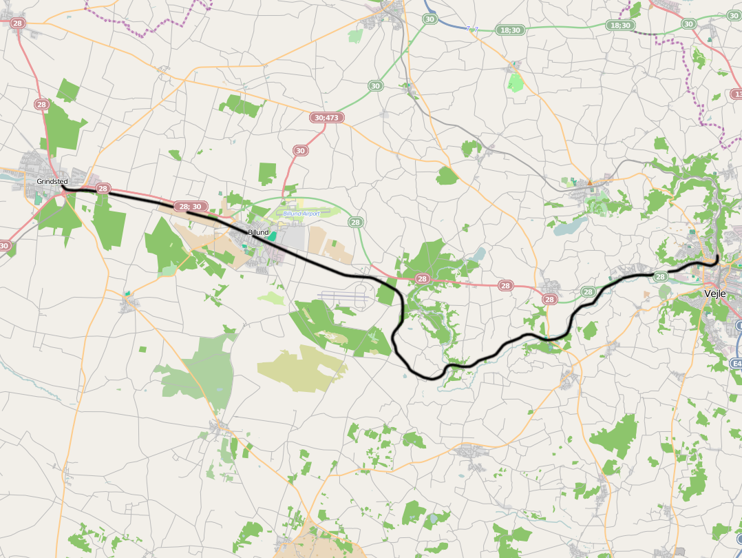 Railway line Vejle - Grindsted